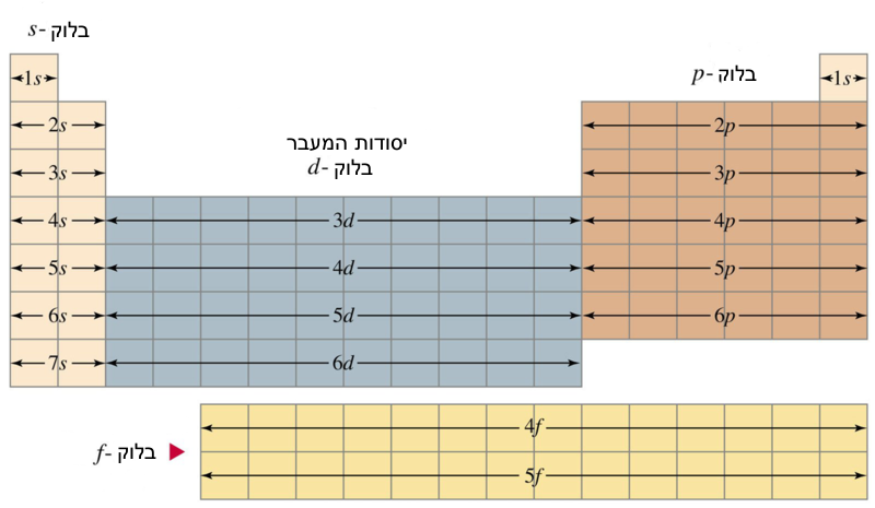 The structure of the periodic table, in blocks, translated to hebrew